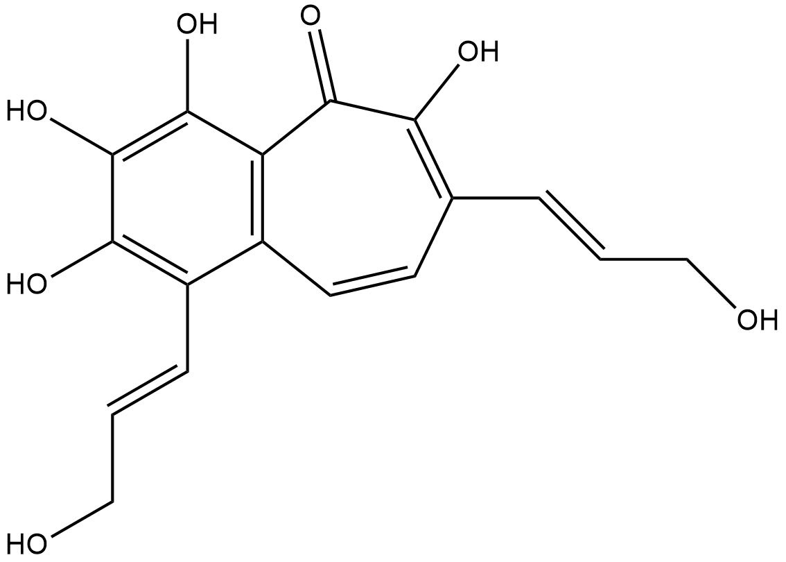 Structure of Fomentariol